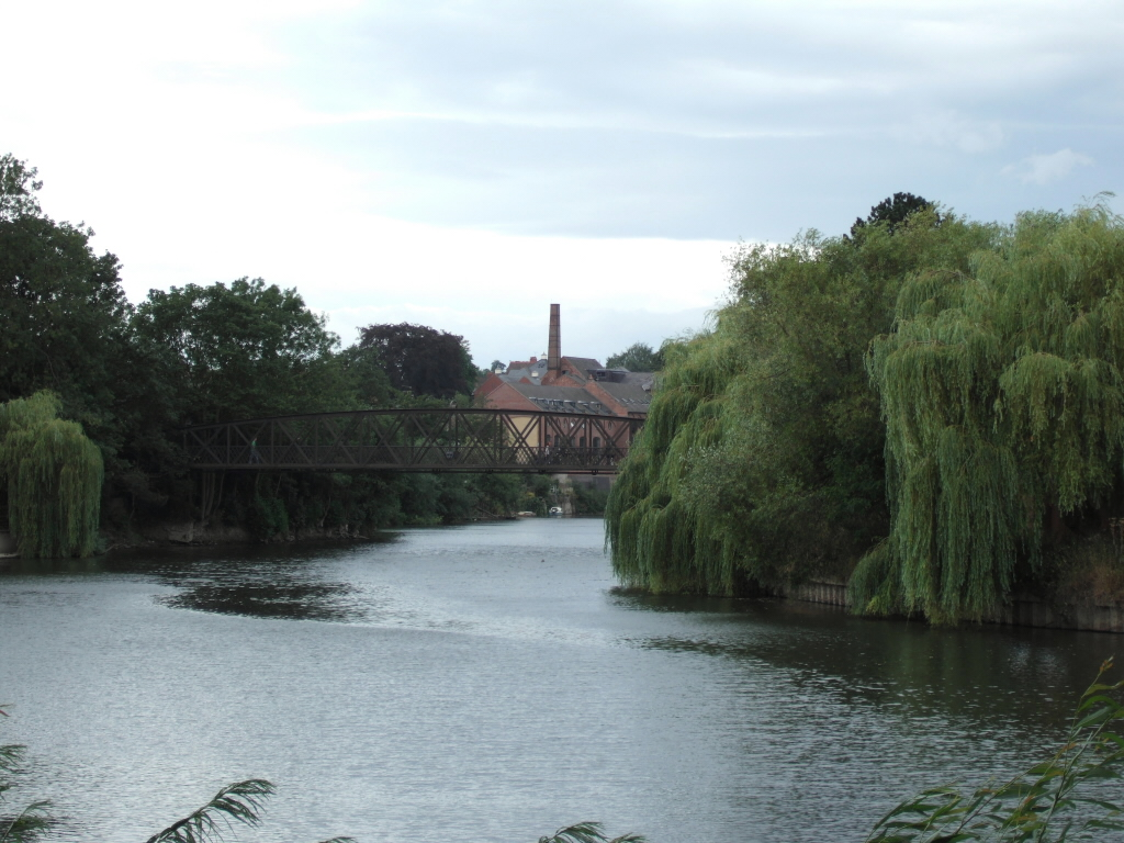 Greyfriars Bridge, Coleham, Shrewsbury. (Looking upstream - Coleham is on the left, the town centre is on the right.) Photo taken by Dpaajones on the 29th July 2006.